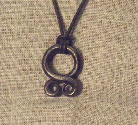 A Troll cross forged by a Swedish smith.